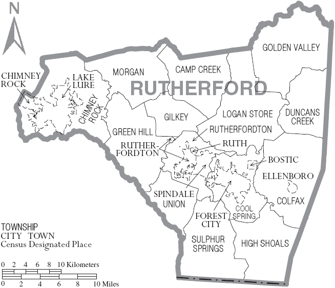 Map of Rutherford County, North Carolina, United States with township and municipal boundaries